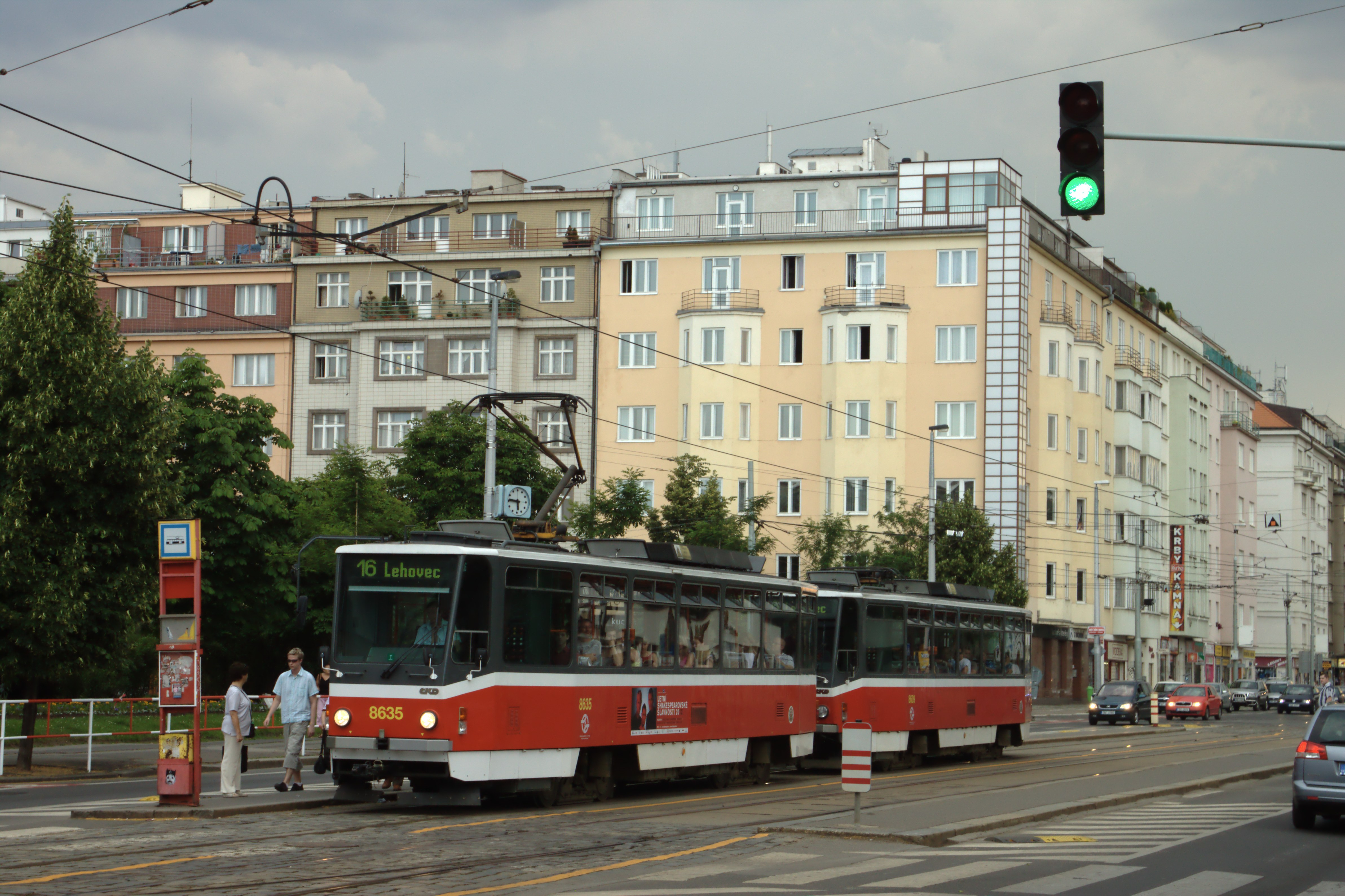 Tatra T6A5 tram in Vinohradská Street, Prague, CZ